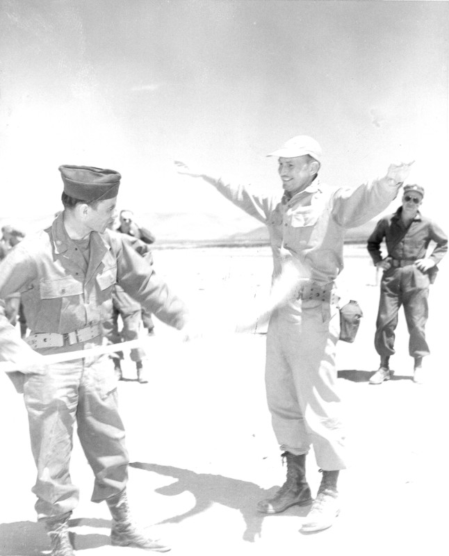 Exercise Desert Rock IV - Nevada Proving Grounds - June 1, 1952. Sixth Army troops from Camp Desert Rock attack towards an atomic blast during a maneuver held by the Army at the AEC's Nevada Proving Grounds in conjunction with the Atomic Energy Commission's Tumbler-Snapper George nuclear test. The troops in foxholes 7,000 yards from the blast, charged forward in battle formation as soon as the shock wave swept over their position -- about 20 seconds and advanced several thousand yards towards ground zero before being halted by radiological safety rules. Original caption: In an effort to rid himself of radioactive dust Lt. Col Robert Cassidy, Department of the Army G-4 section uses a broom in sweeping of Lt. Col Glover Johns after an inspection tour of the blast area at Camp Mercury, NV.These men visited "ground zero" after an atomic blast.